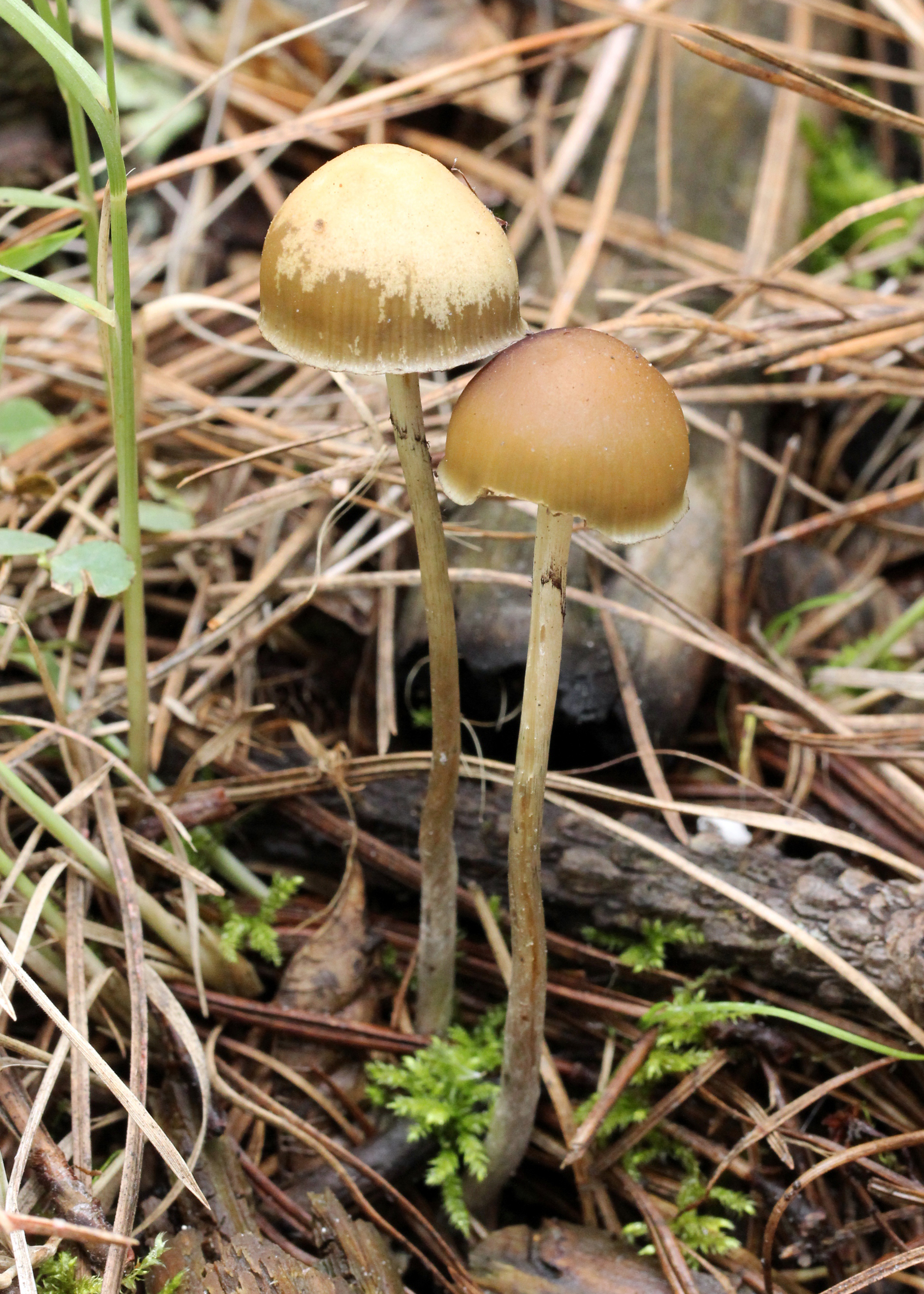 Fruit bodies of the psychedelic mushroom Psilocybe aztecorum R. Heim. Specimens photographed in Popocatépetl, Mexico. "Notes: Under Pinus hartwegii, 3400 meters elevation." Original photo cropped by uploader.